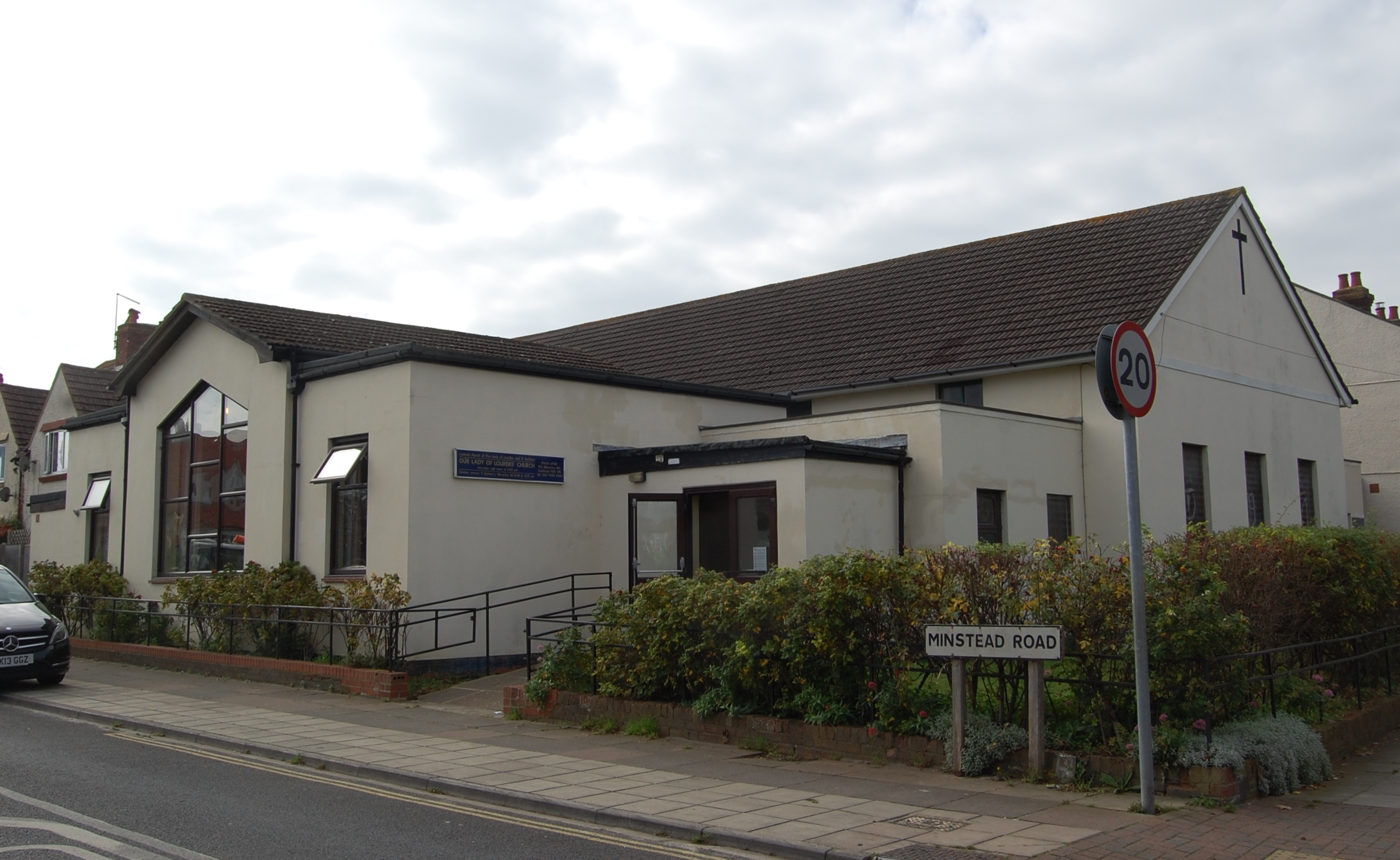 Church of Our Lady of Lourdes, Bransbury Road, Eastney, City of Portsmouth, England. A Roman Catholic church serving the Eastney area in the southeast of the city. Mass was celebrated from 1937 in a converted garage next to the house which the present church replaced. It is a prefabricated building and has been greatly altered since its construction in 1956.